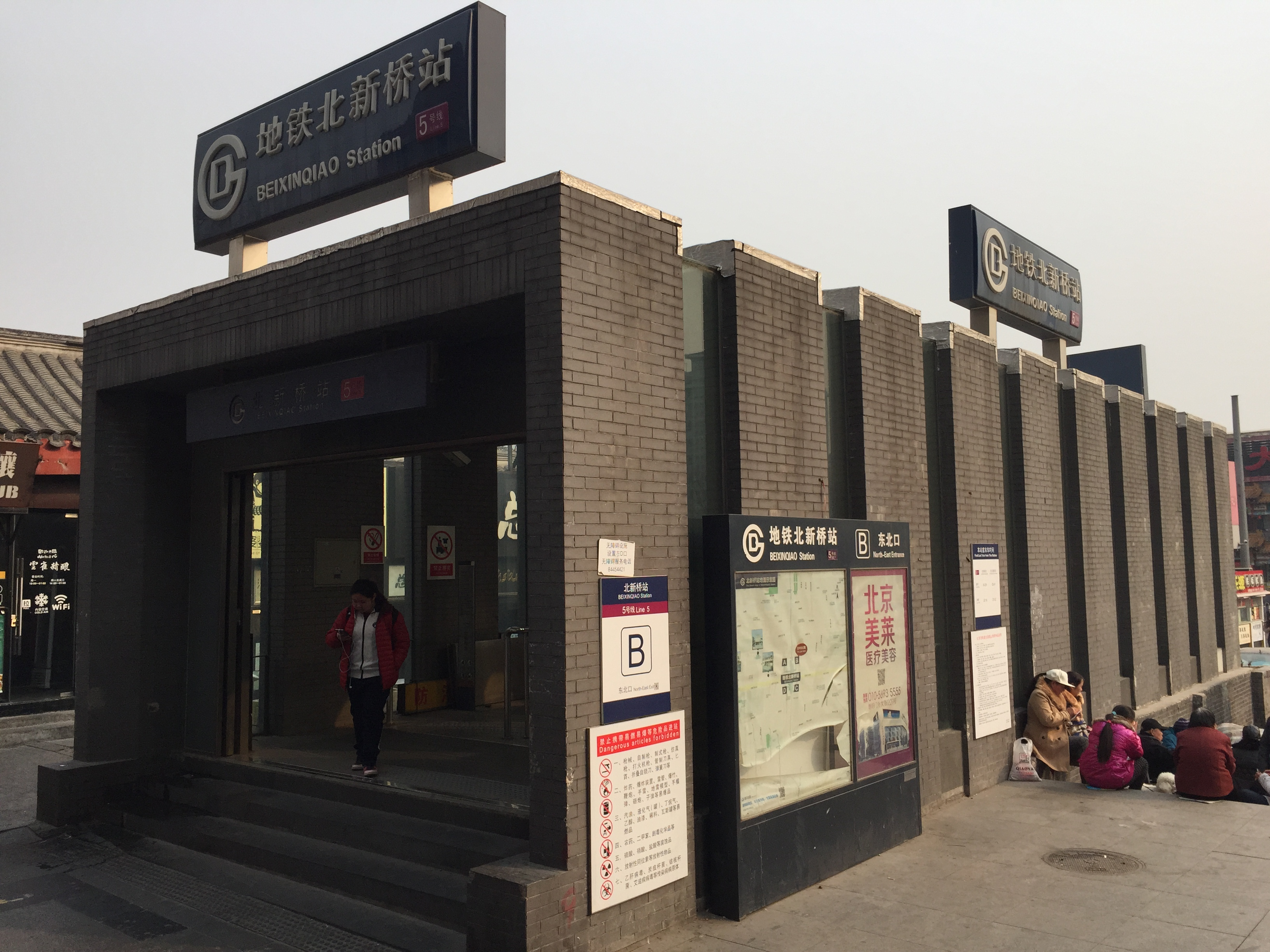 In close proximity to Gui Jie (Dongzhimen Inner St).